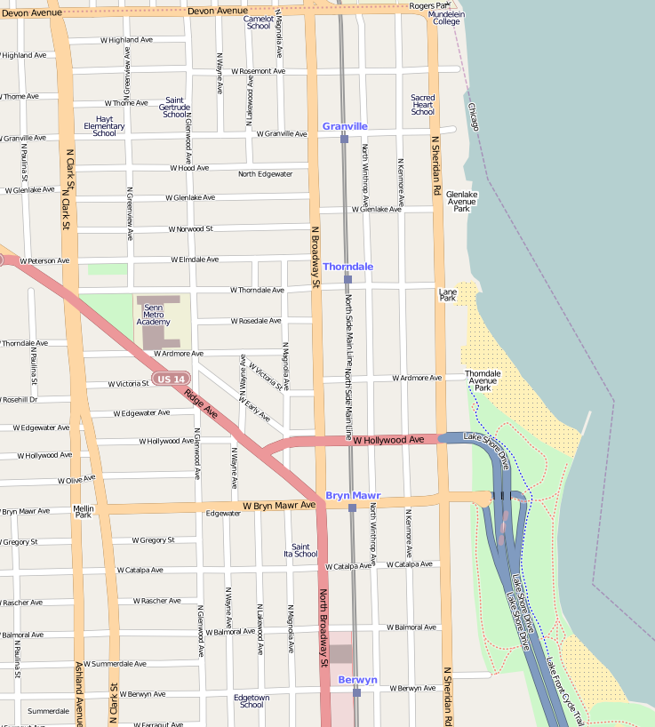 This map may be incomplete, and may contain errors. Don't rely solely on it for navigation.